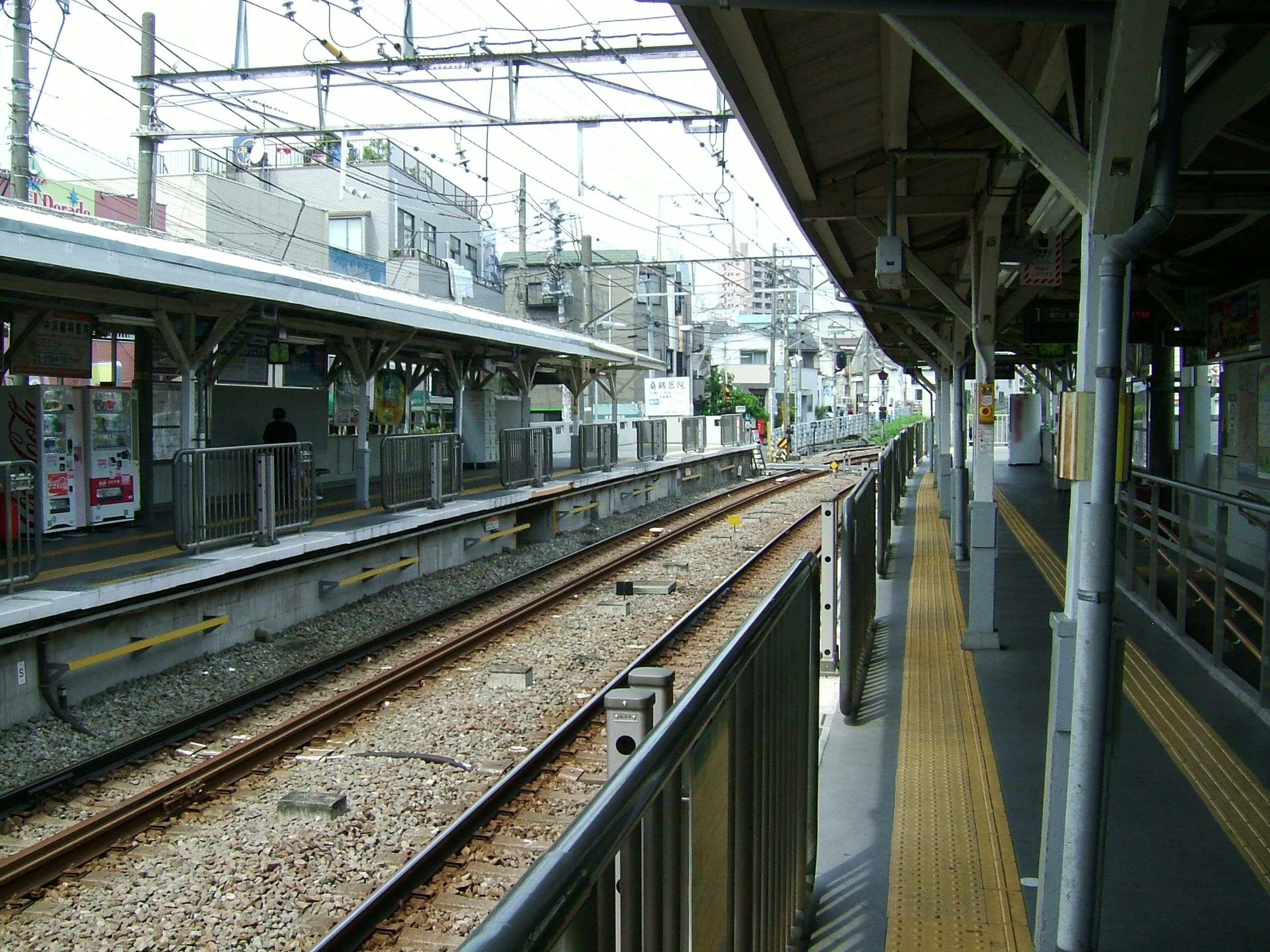 Togoshi-Ginza Station platform (Tōkyū Ikegami Line)